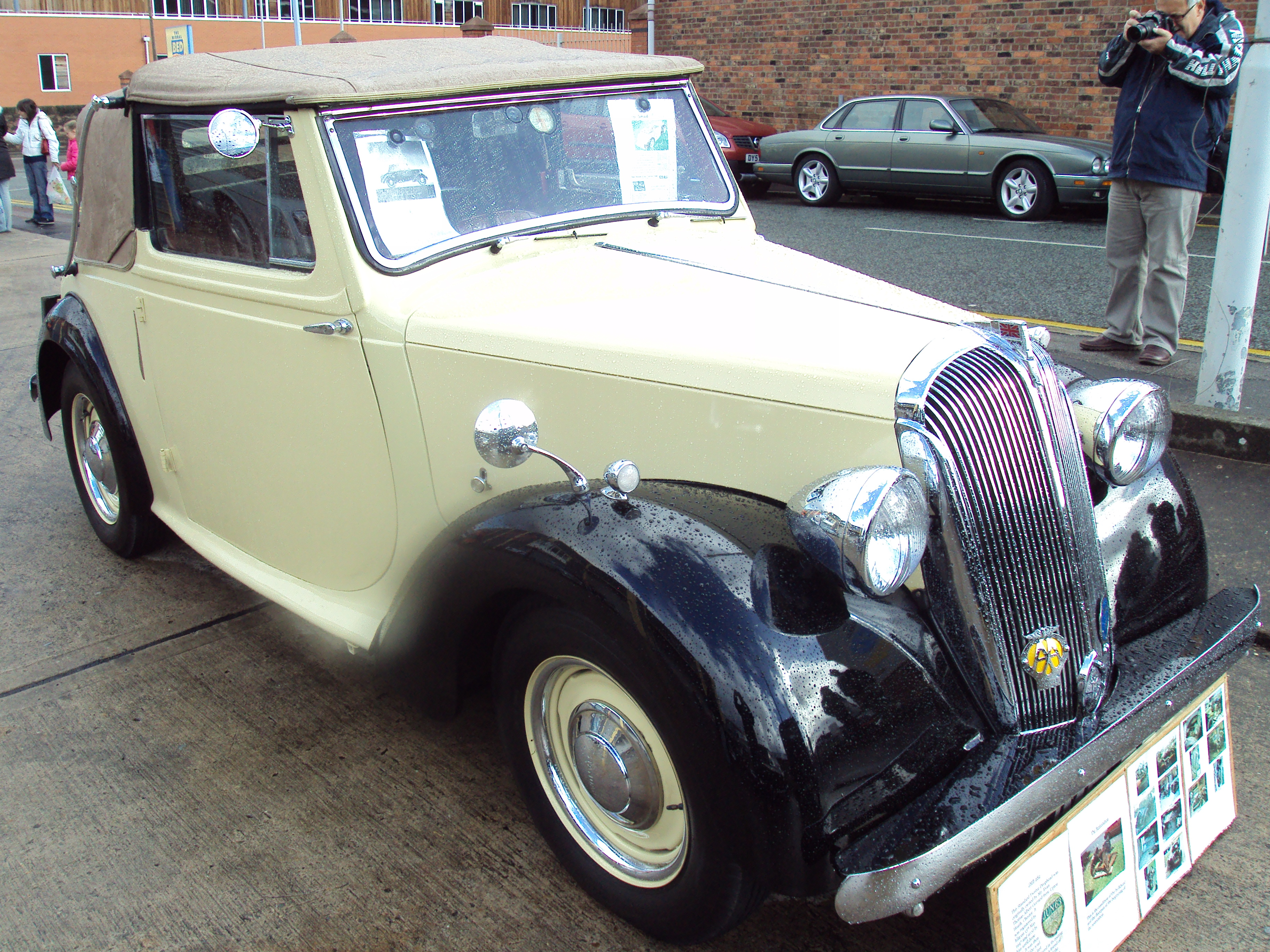 1947 Standard Twelve drophead coupé (DVLA) JMB 282, 1609 cc manufactured 1947 Vintage car at the Wirral Bus & Tram Show, Birkenhead, Merseyside, England.